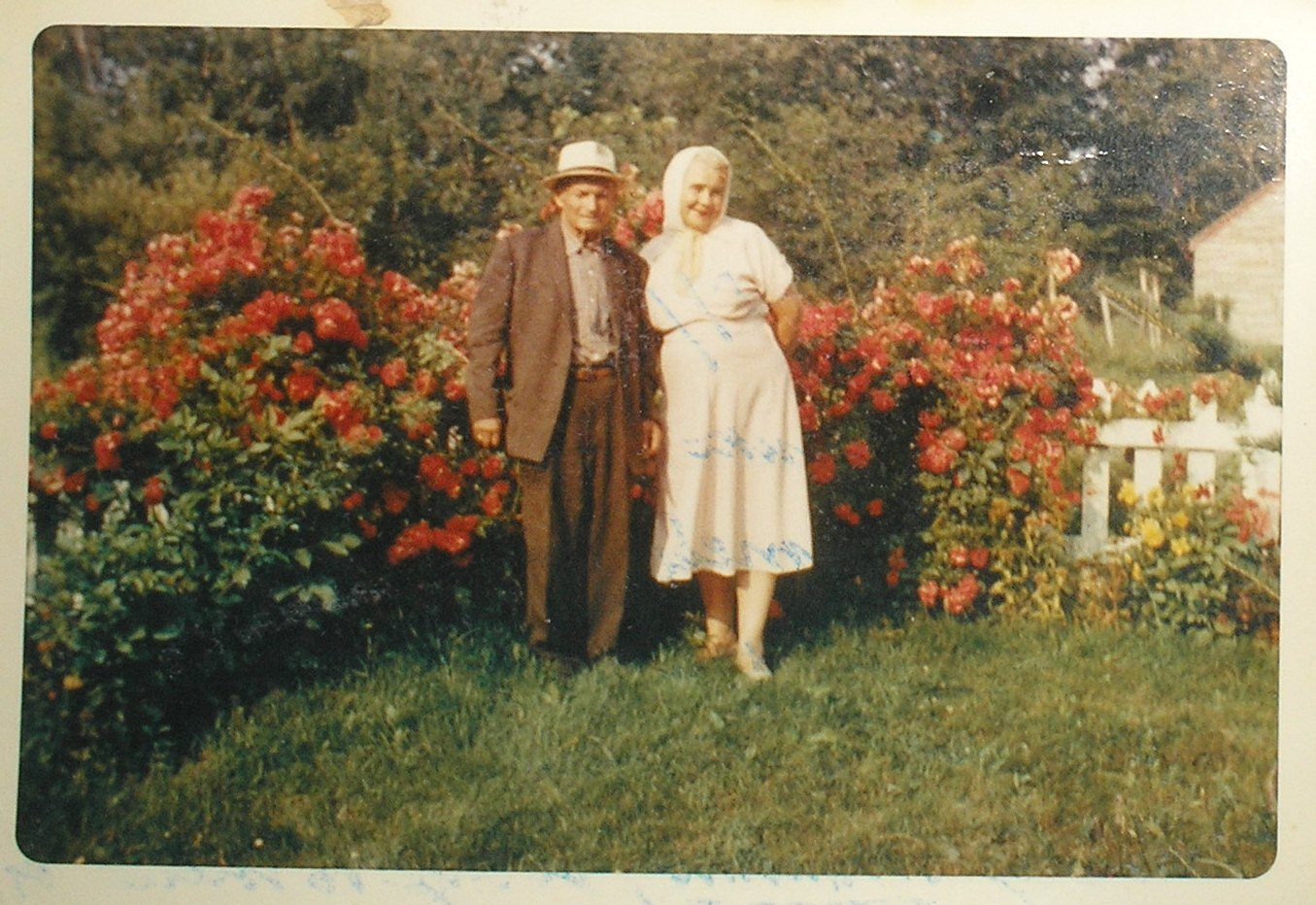 Vakula Ditel' and his wife in USA